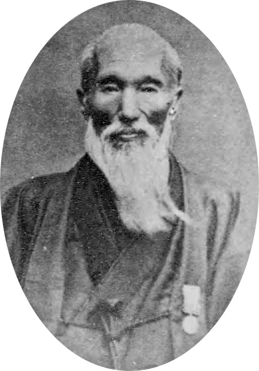 Ōsato Tadaichirō.